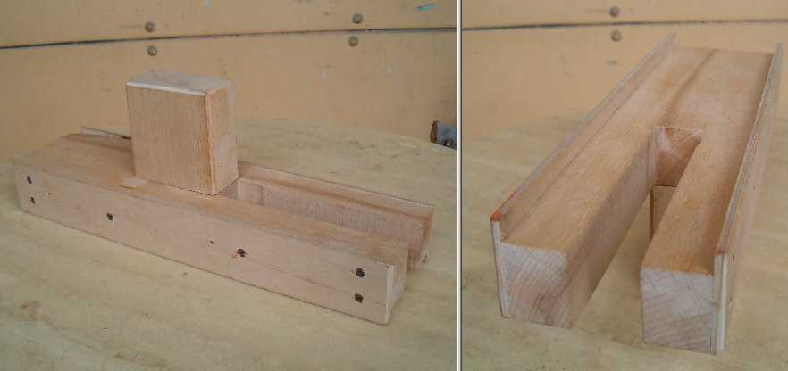 a shooting board